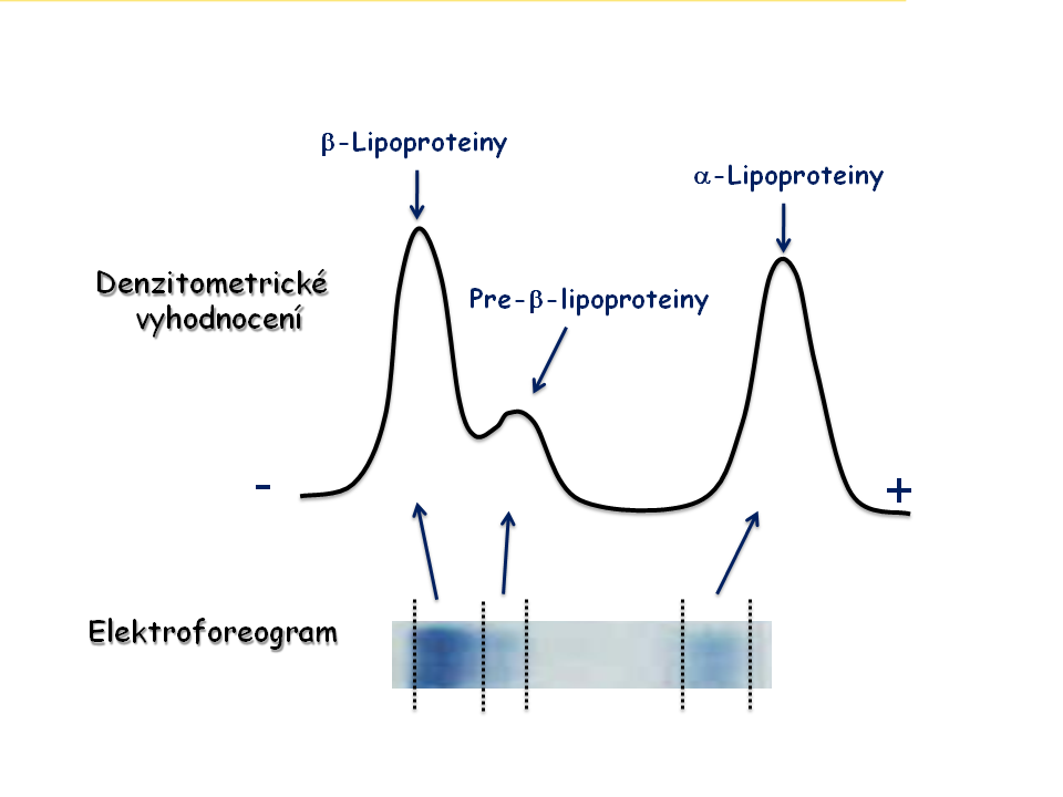 Lipoproteins - denzitometric and electrophoretic diagnosis.